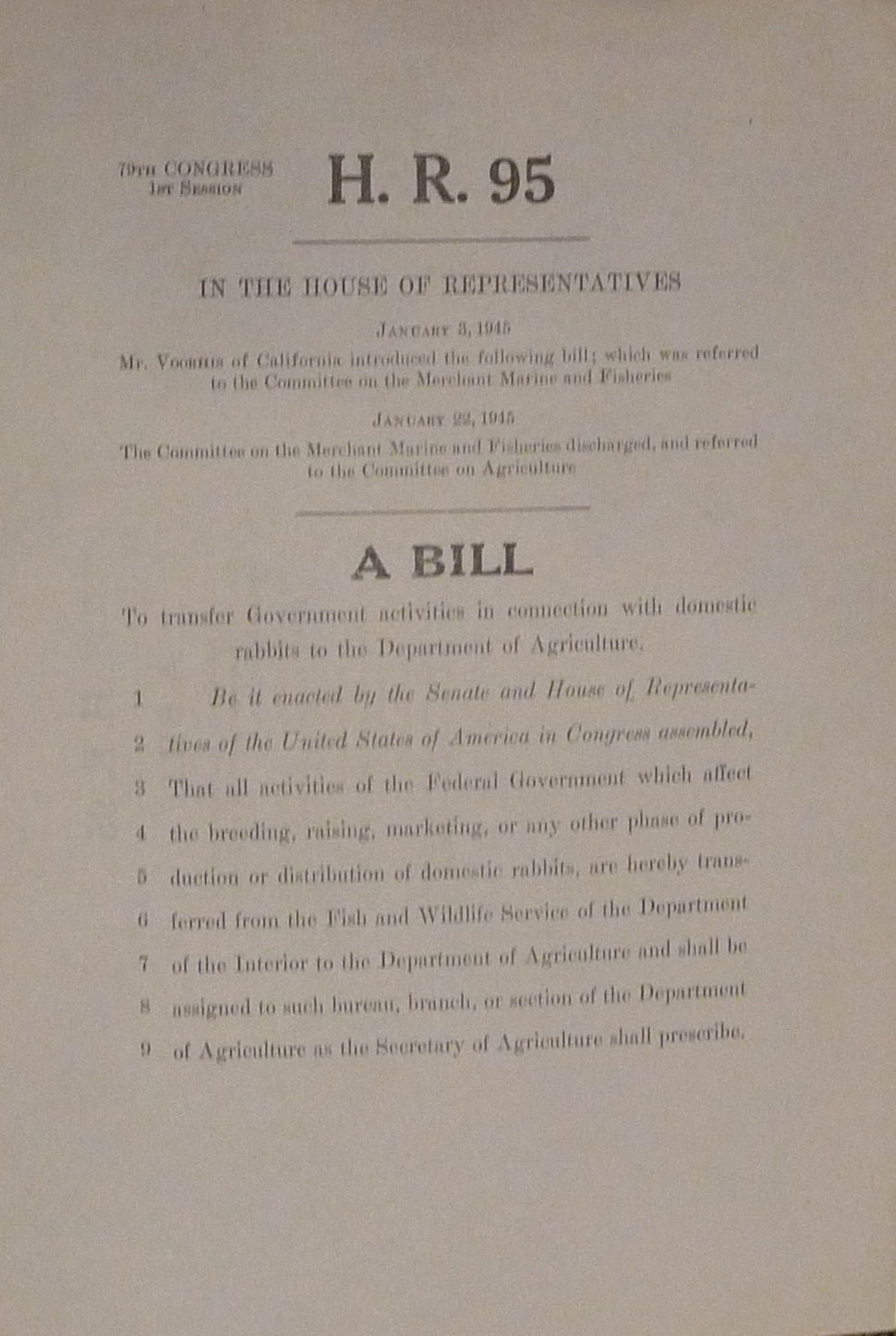 Photograph of bill transferring jurisdiction over rabbit raising